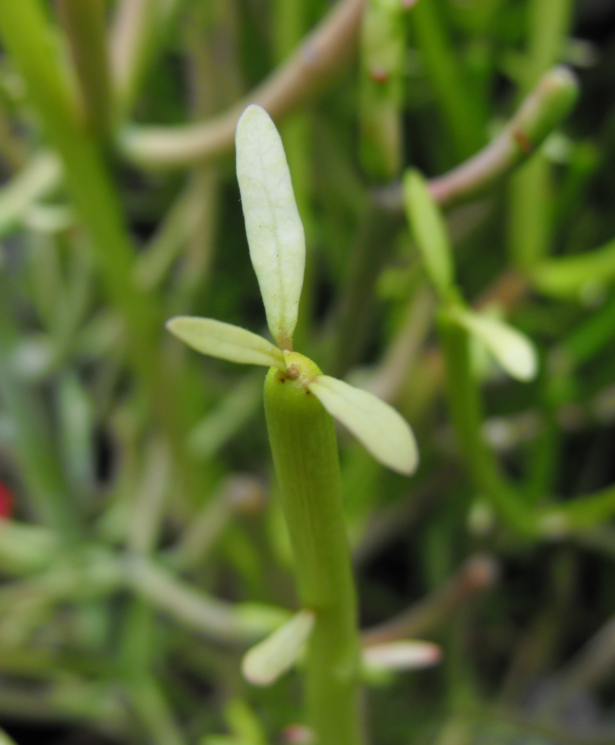 Euphorbia tirucalli in the Botanical Building at Balboa Park, San Diego, California, USA. Identified by sign.